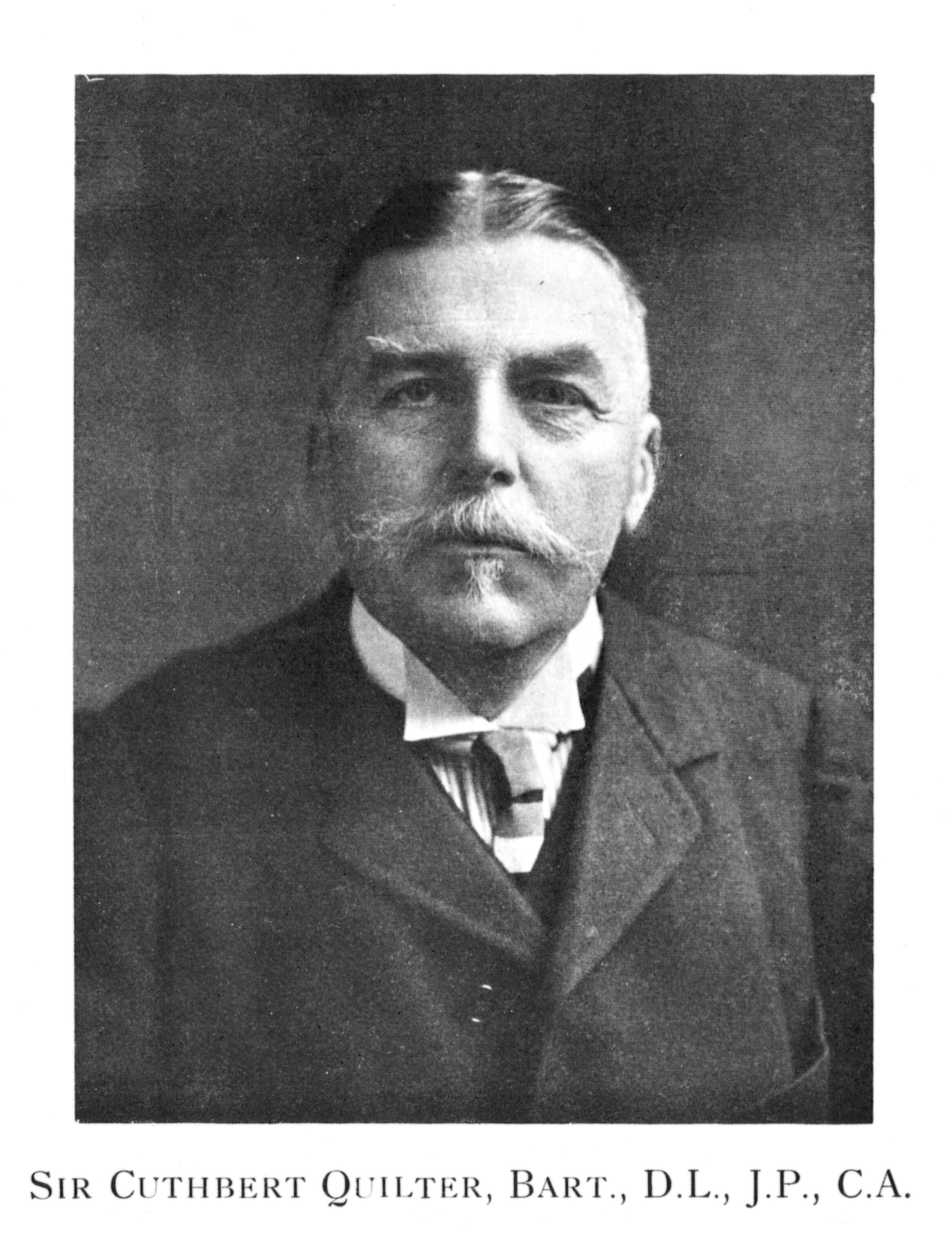 Full-face photographic portrait of Sir William Cuthbert Quilter (1841-1911) captioned SIR CUTHBERT QUILTER, BART., D.L., J.P., C.A. [Baronet, Deputy Lieutenant, Justice of the Peace, County Alderman (West Suffolk County Council)], from the book entitled Suffolk Leaders: Social and Political, by Charles Albert Manning PRESS (1869-1943) published (for subscribers only) in May 1906 by the Hornsey & Tottenham Press Ltd.